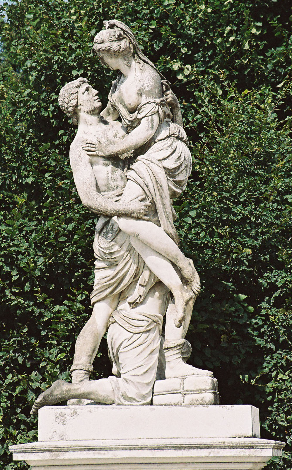 Vienna, Schönbrunn gardens, statue Abduction of Helen